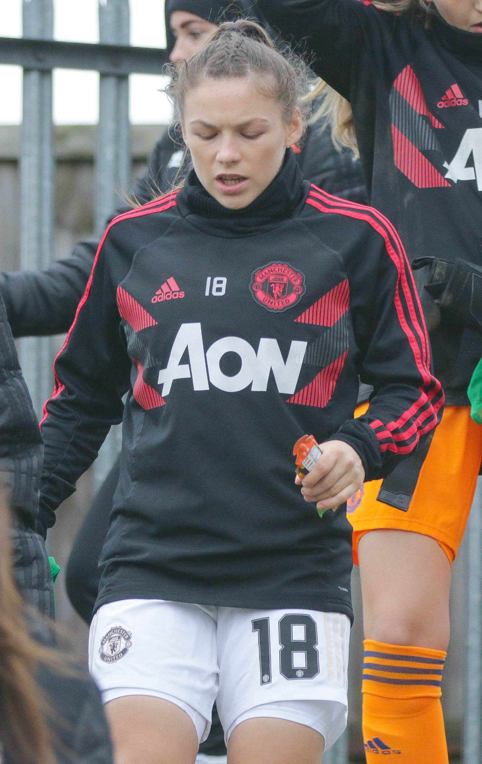 Manchester United substitutes Lucy Roberts (15) Kirsty Hanson (18) and Emily Ramsey (13)